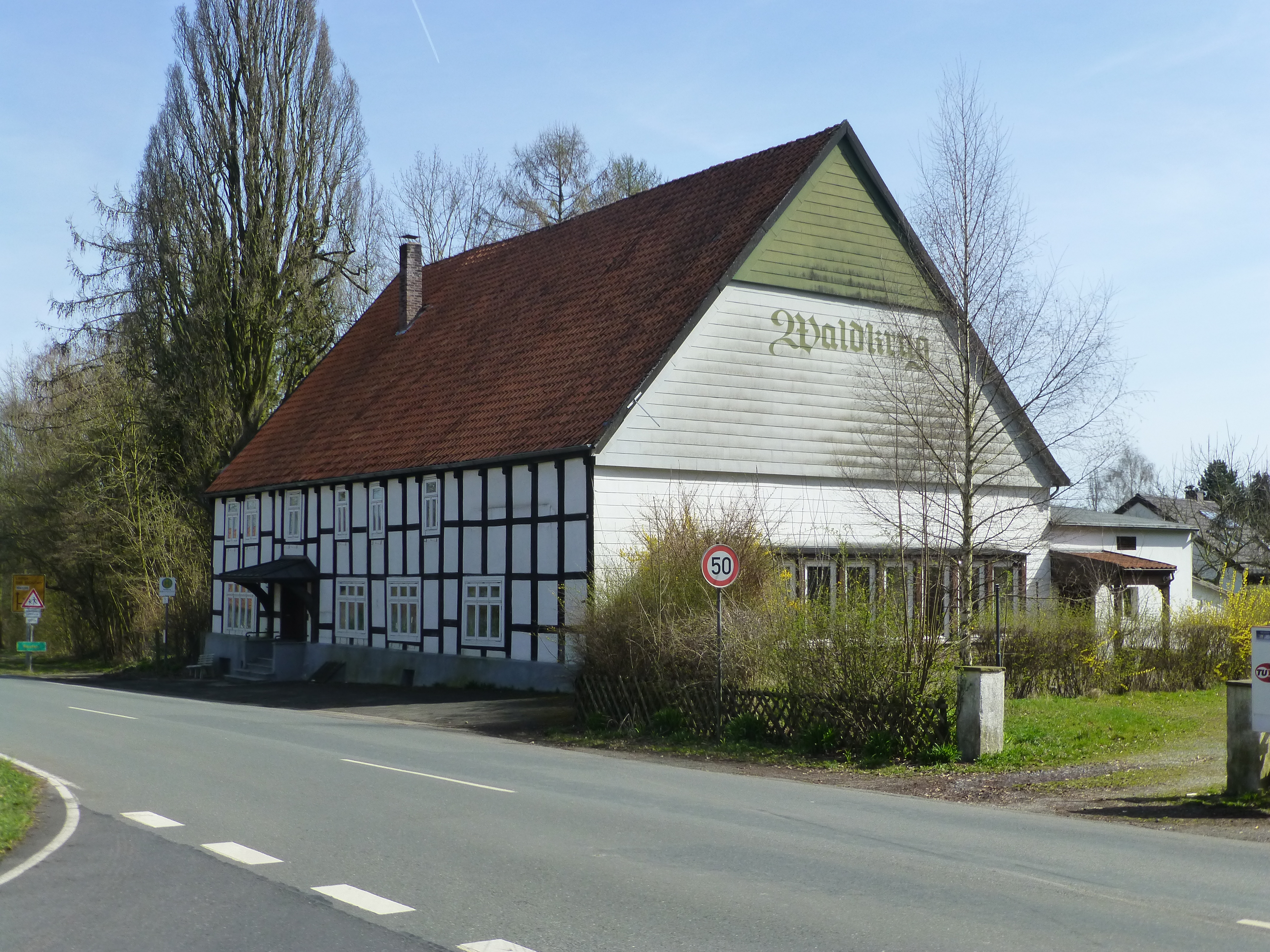 Waldkrug, Bexten, Bad Salzuflen, Germany.